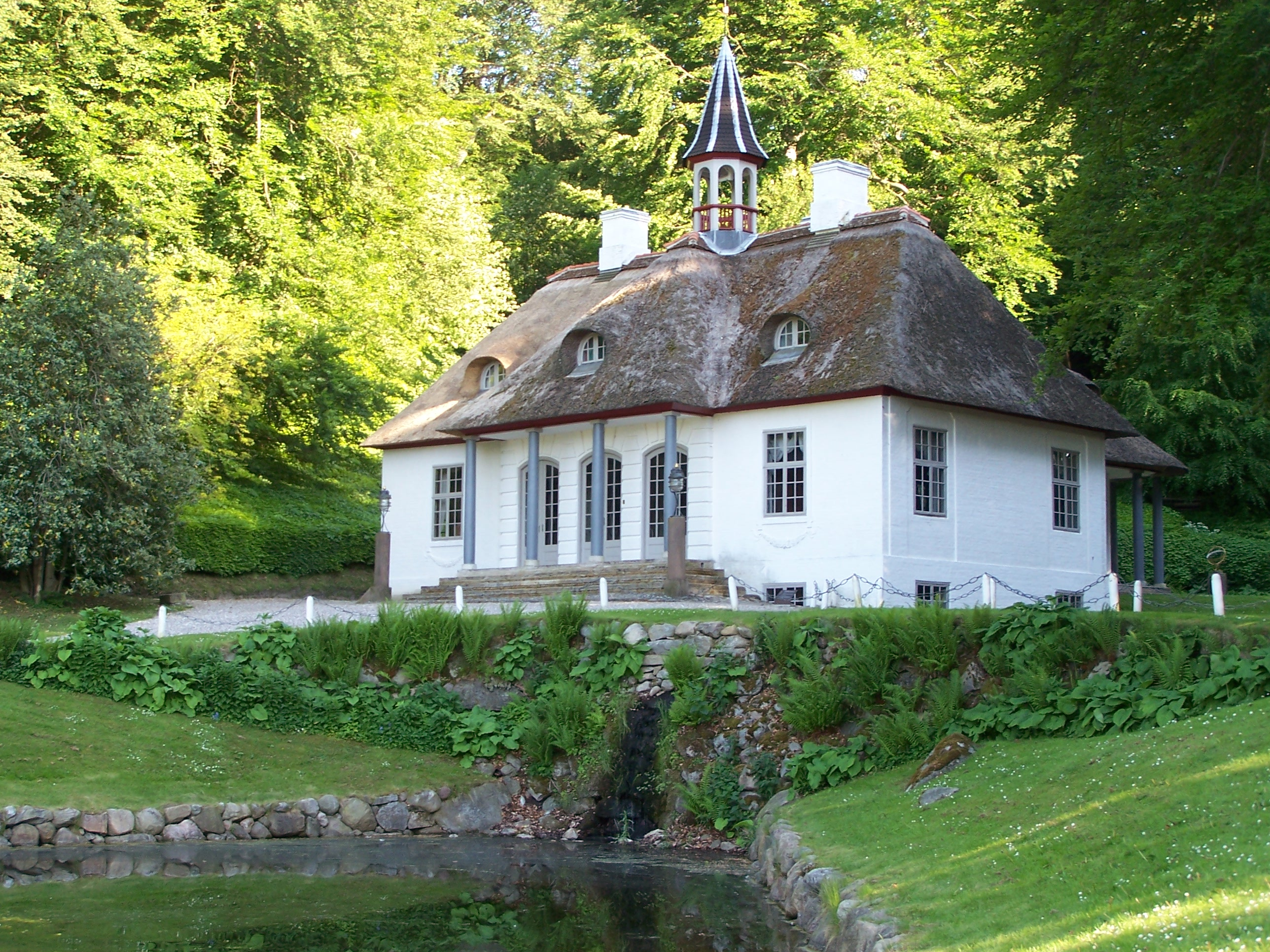 Liselund lystslot, Møn